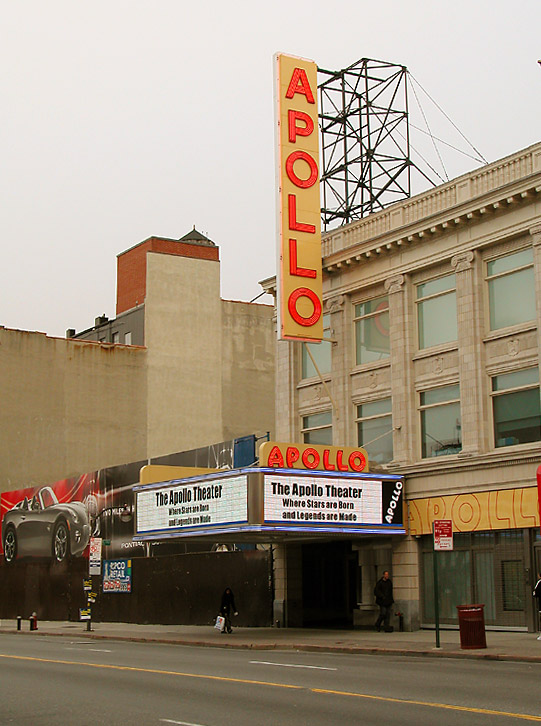 The Apollo Theater in Harlem, New York City, New York, in November 2006.